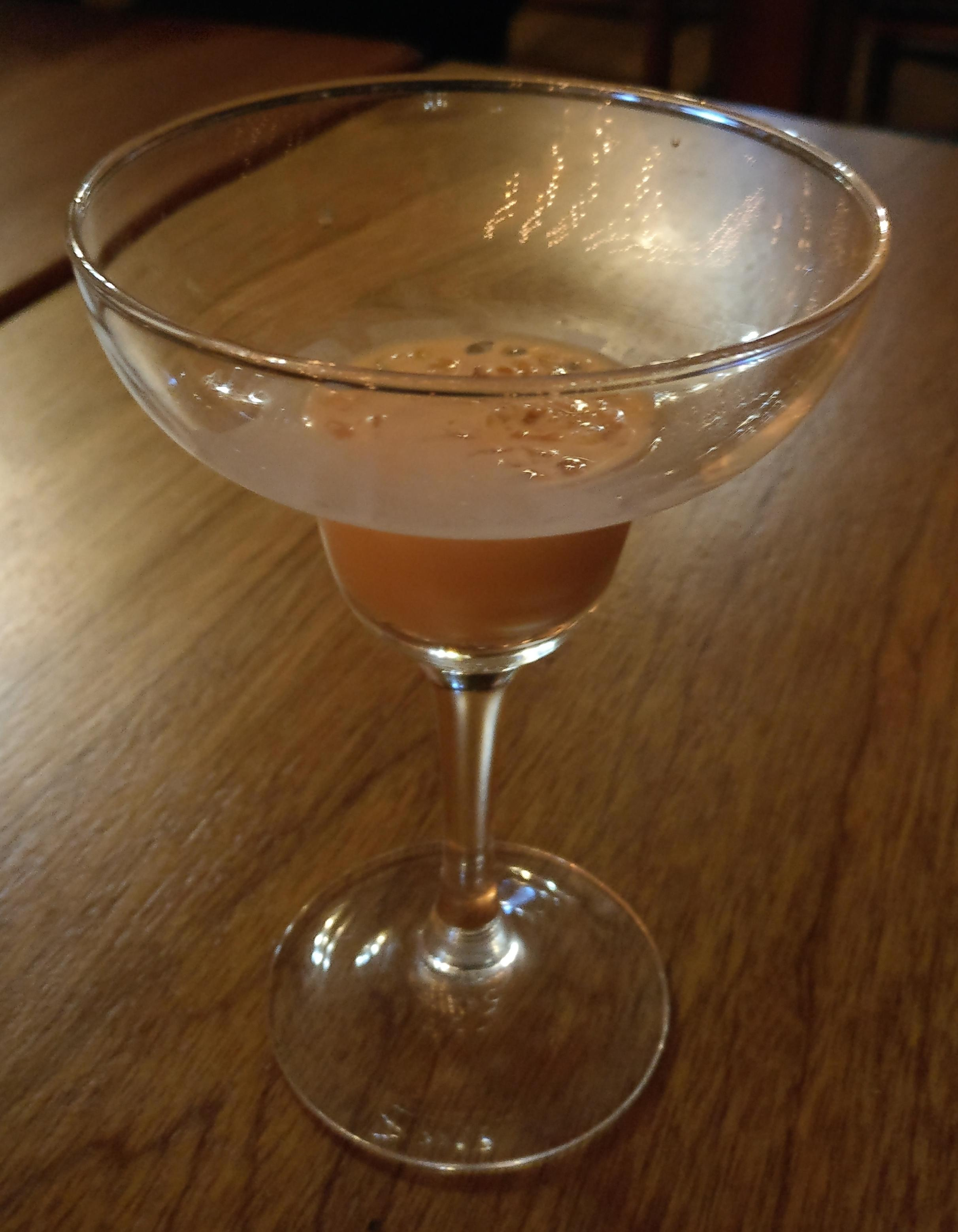 Glass of the South African liquor Amarula (photo taken in Cape Town).